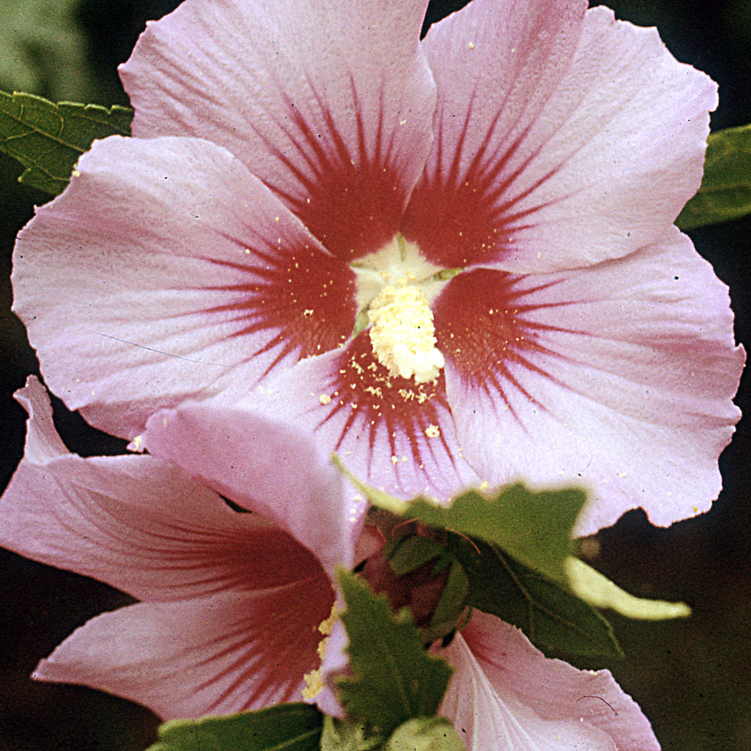 Hibiscus syriacus pink flower